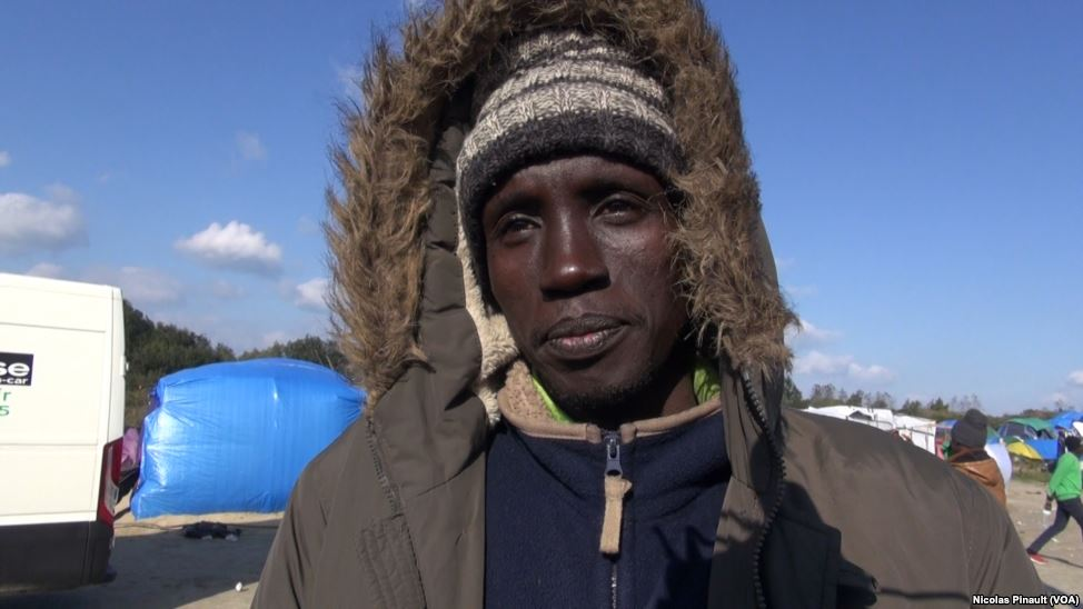 Badeldin Shogar a Sudanese migrant at the "jungle" refugee/migrant camp in Calais, France, Oct. 2015